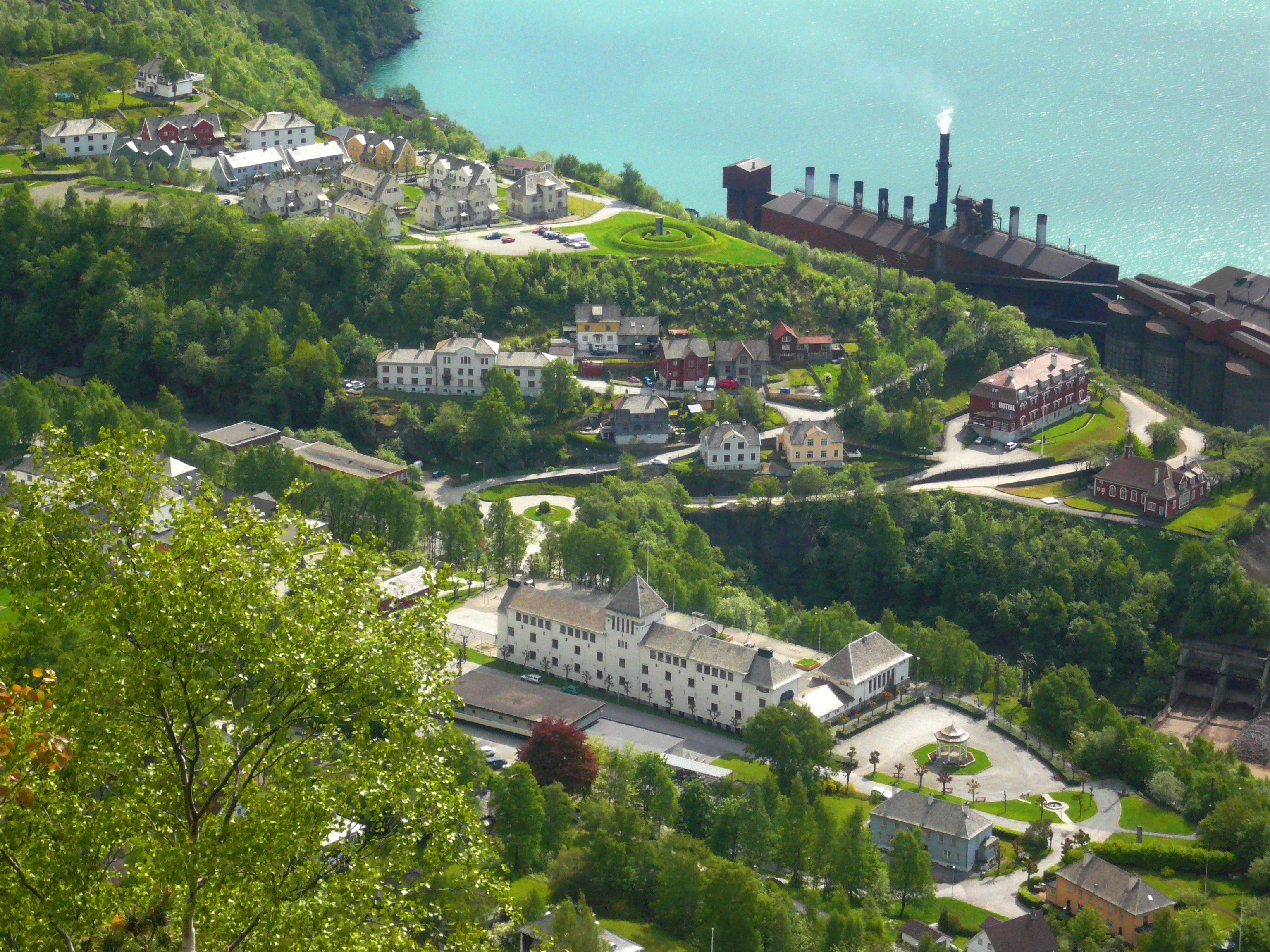 Tyssedal, Hordaland, Norway